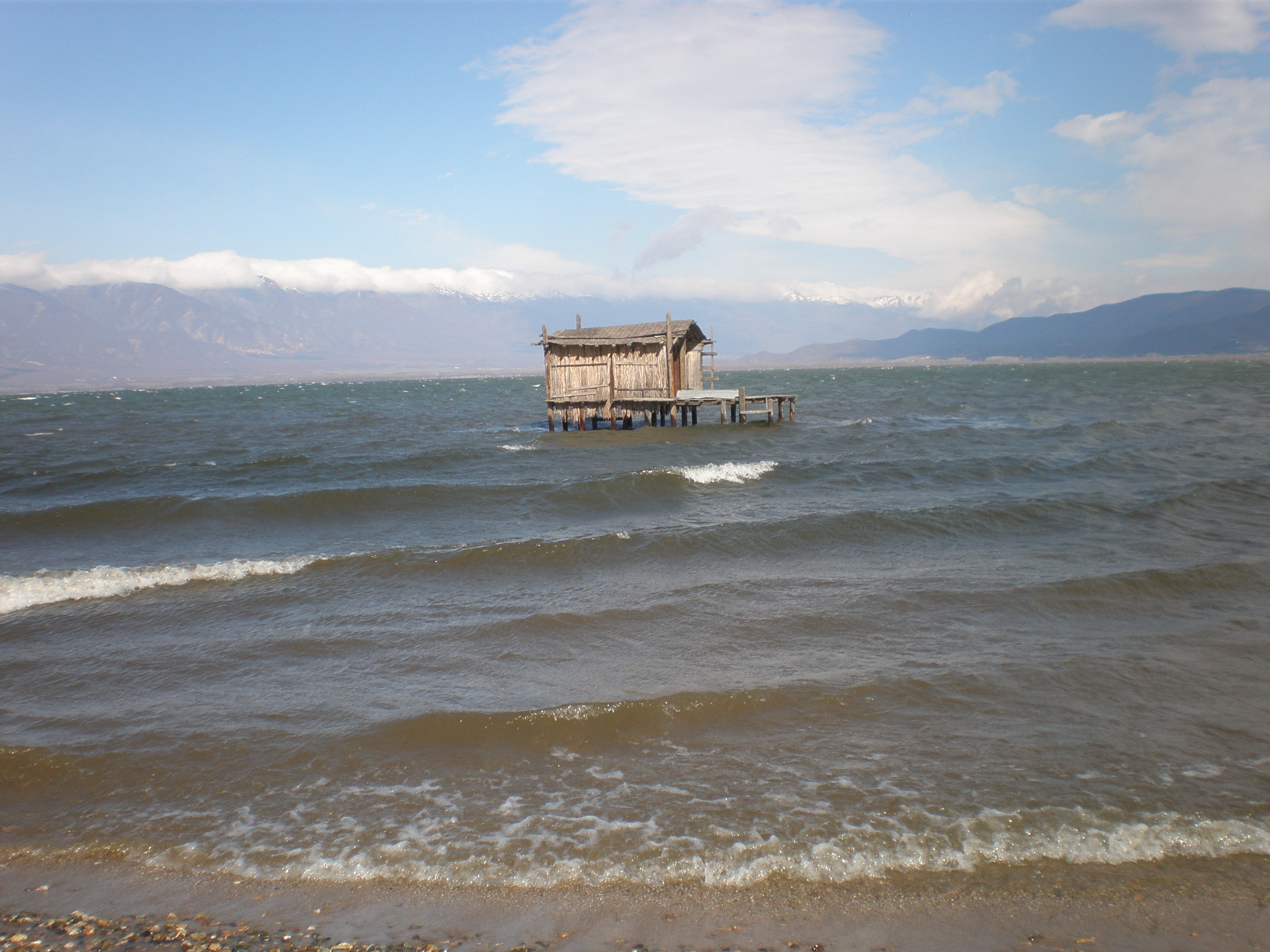 Fisherman's hut in Dojran Lake